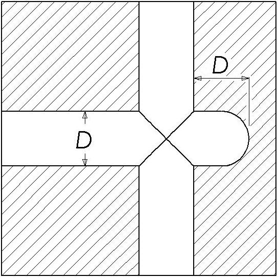 COLD SLUG WELLS, SVG version created by SOLIDWORKS, based on the earlier TIF version, created by.